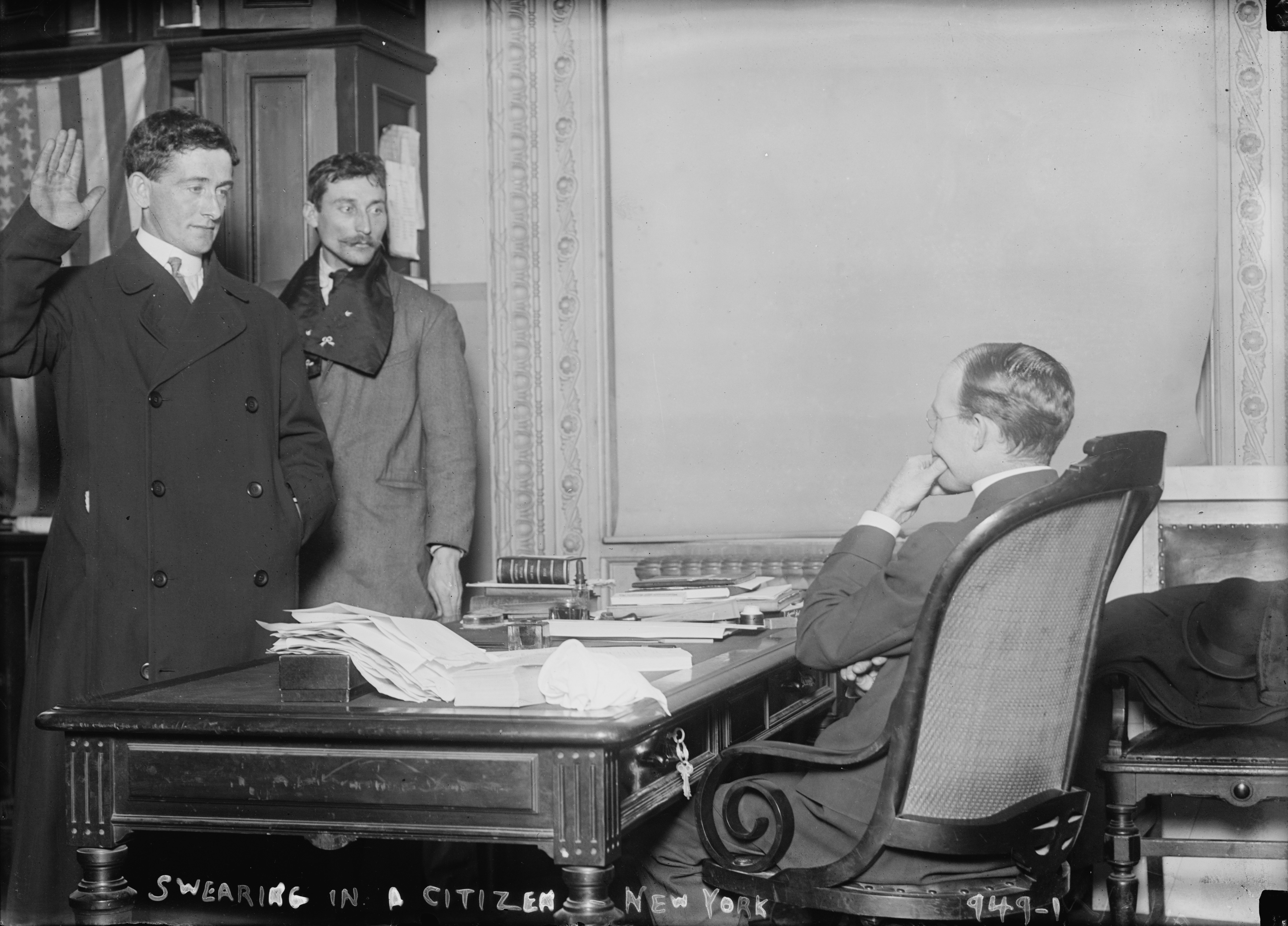 Judge in chambers swearing in a new citizen, New York